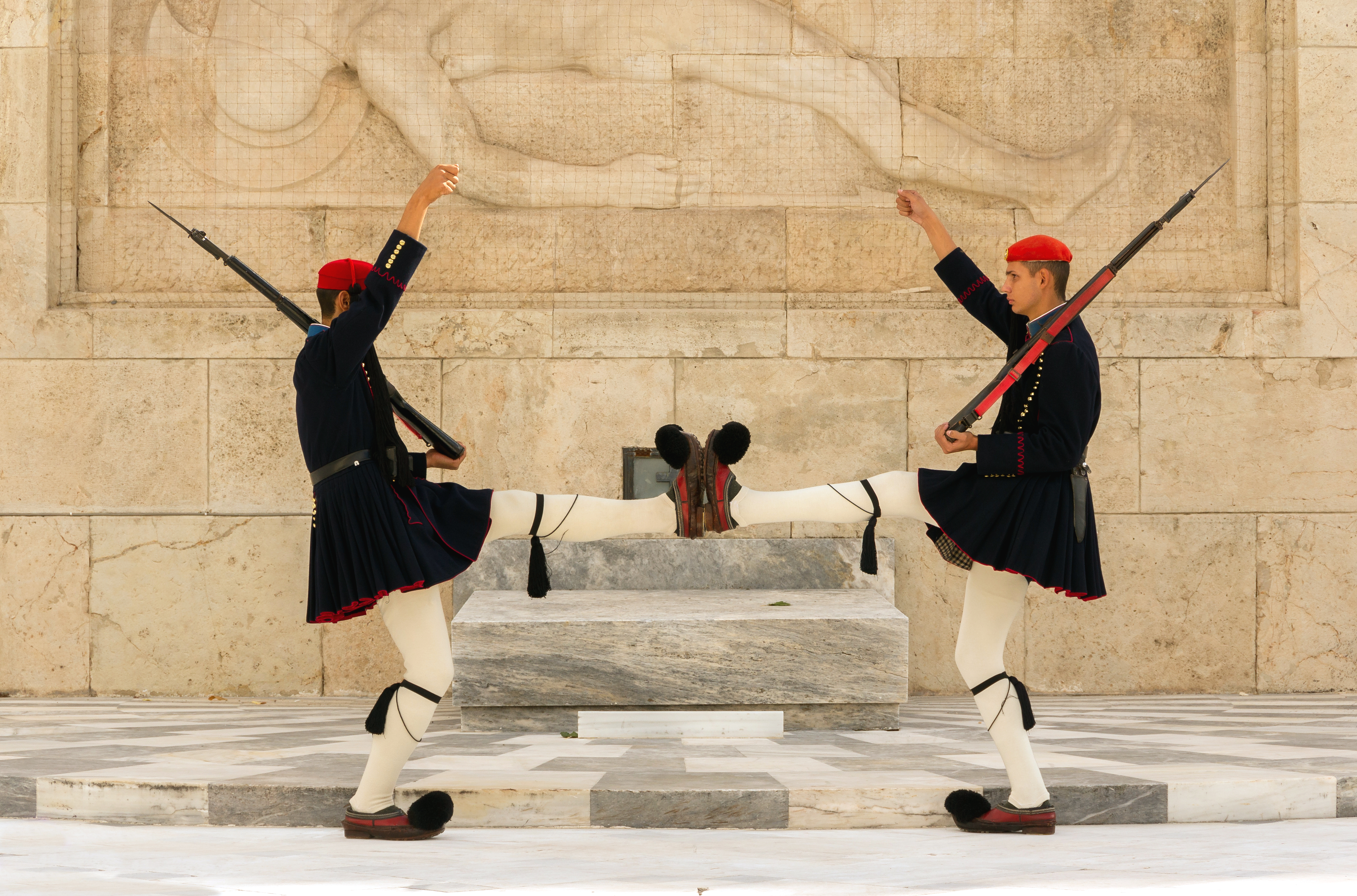 Evzones, blue clothing. Athens, Greece